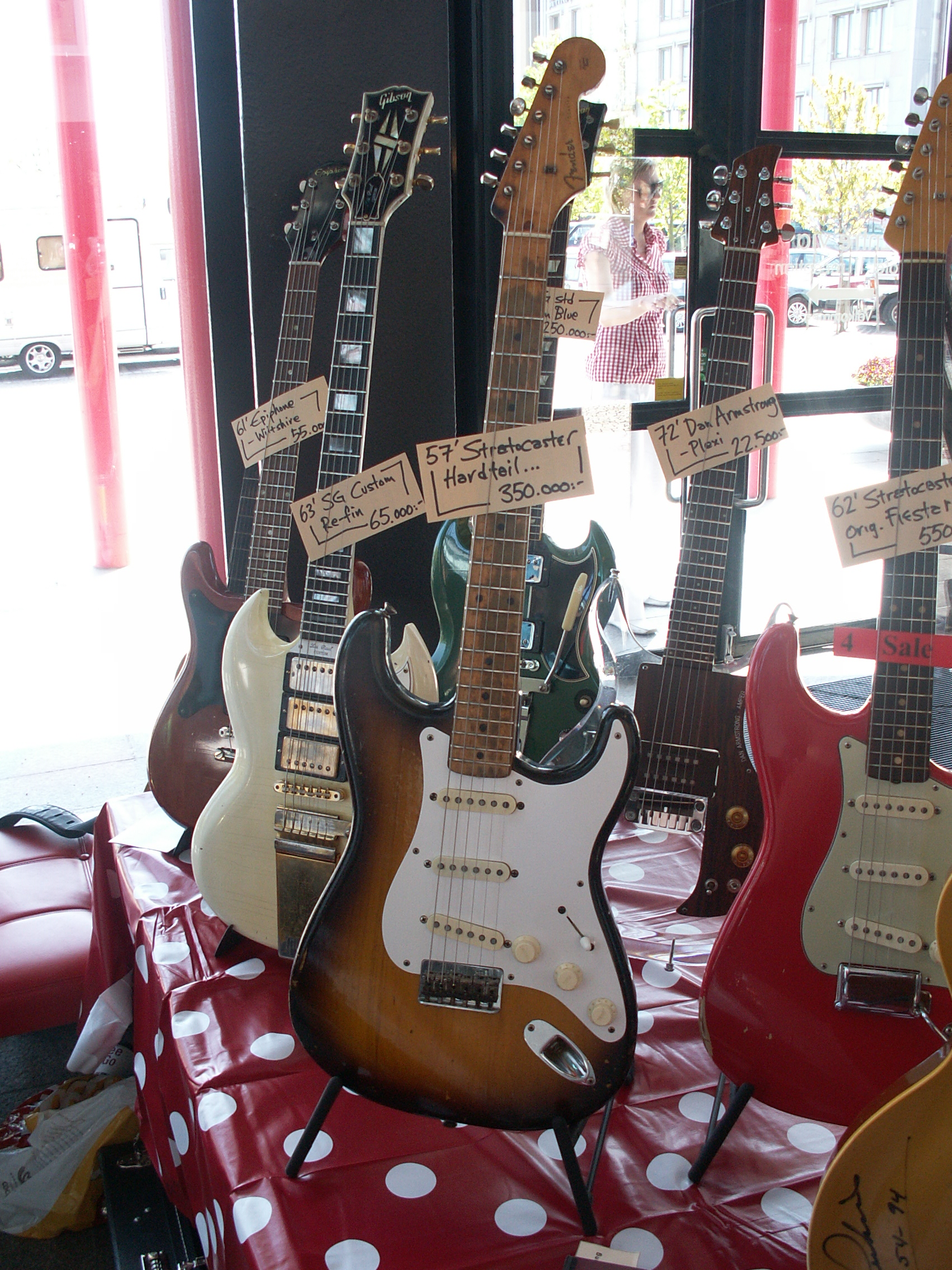 Look at the price tags.... (left to right) 61' Epiphone Wiltshire 63' SG Custom Re-fin 57' Stratocaster Hardteil ??' SG std Pelham Blue? 72' Dan Armstrong Plexi [1] 62' Stratocaster orig. Fiesta red